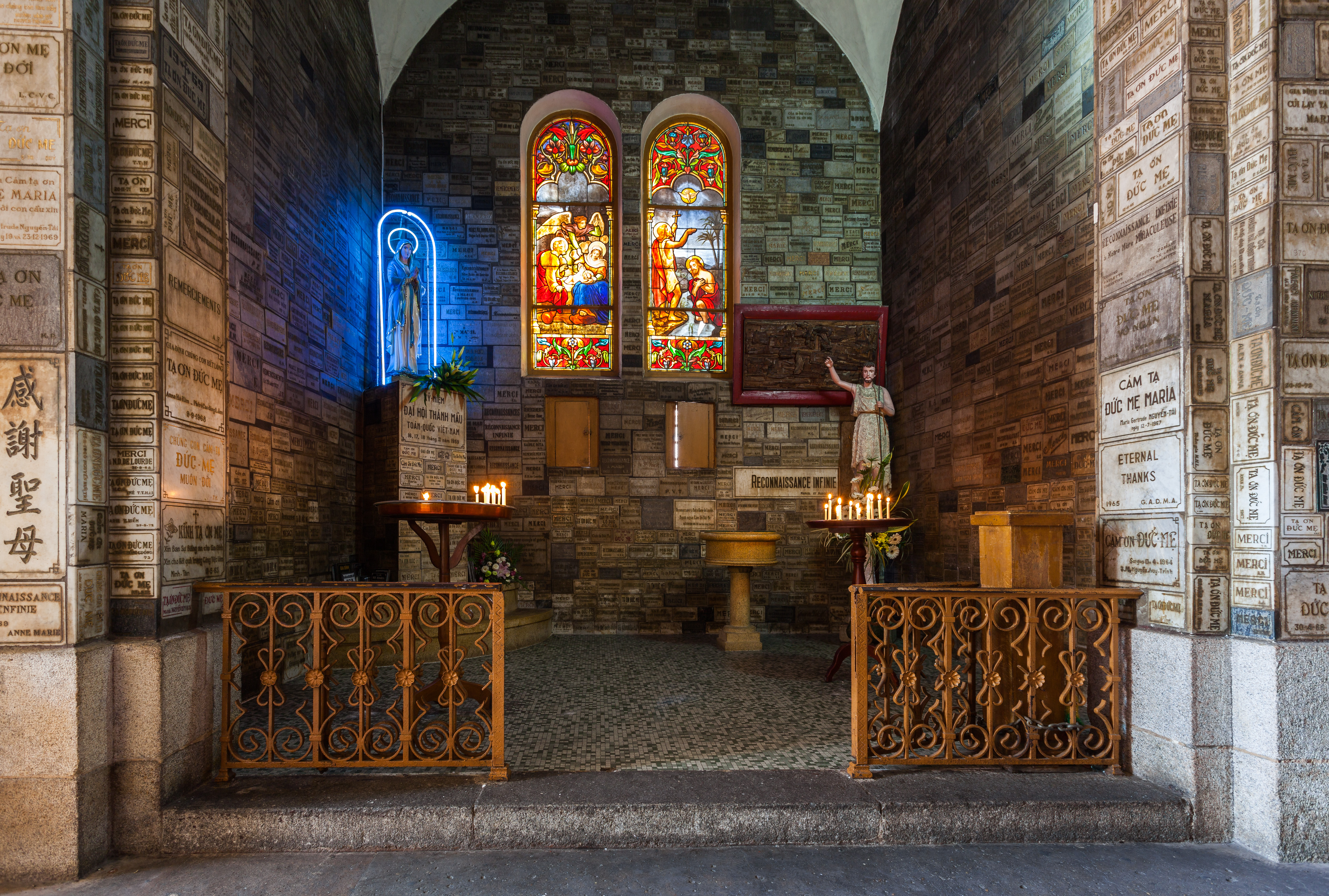 Stained-glass windows by Lorin firm from Chartres, Our Lady Basilica, Ho Chi Minh City, Vietnam.